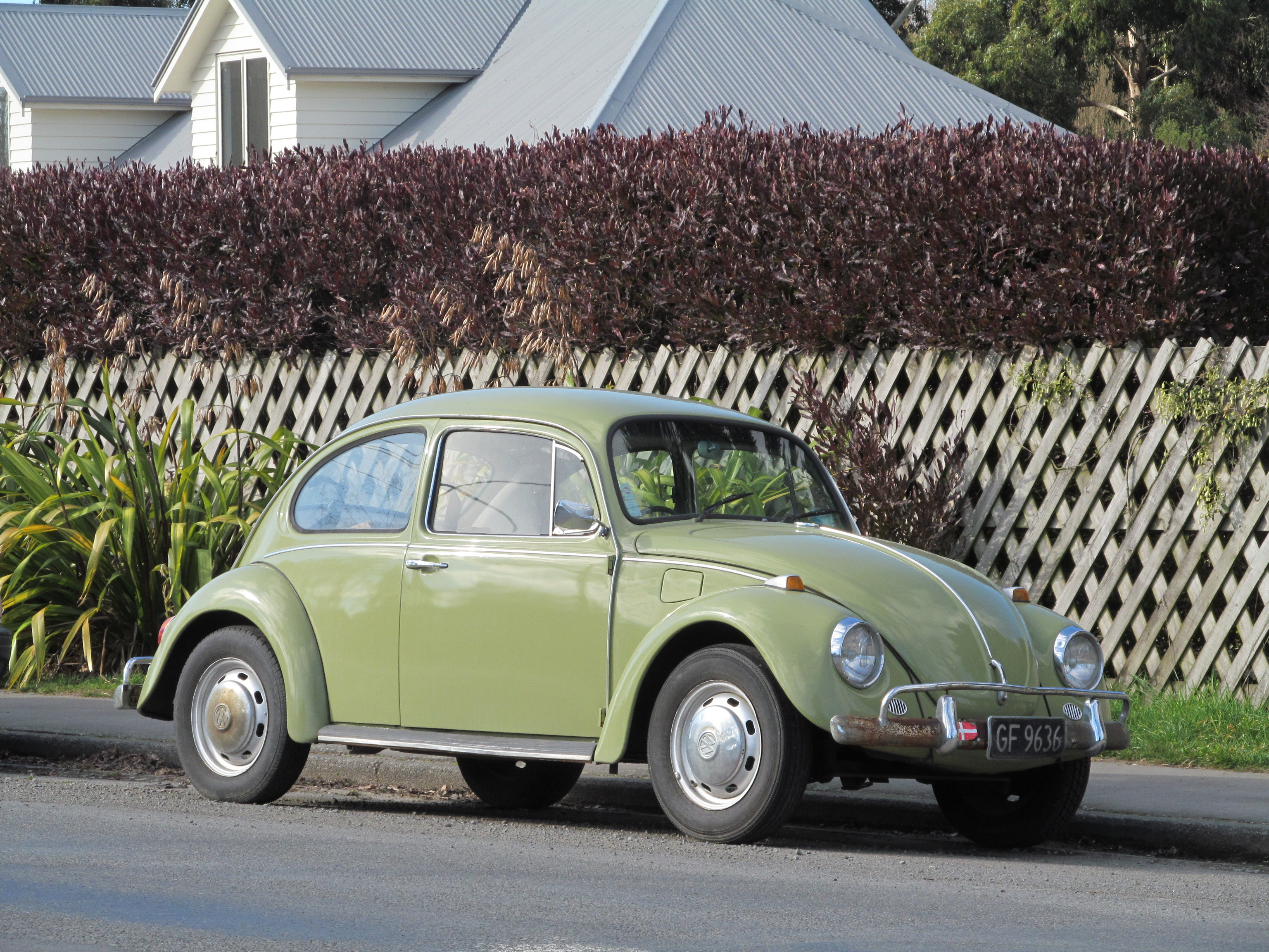 I don't normally photograph Beetles, but this one seemed nice and original. It was just up the road from that modified black Beetle I posted last week as well.